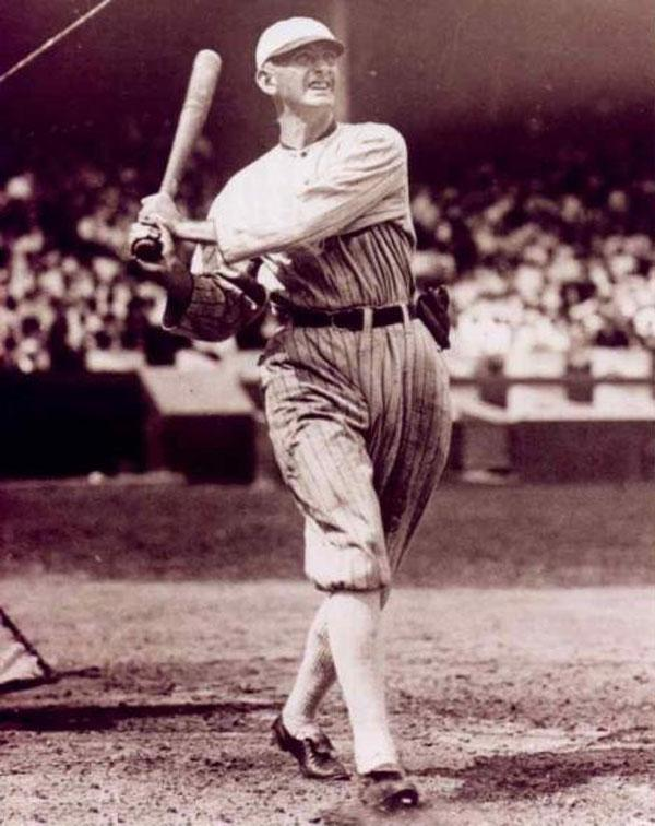 Baseball player Shoeless Joe Jackson